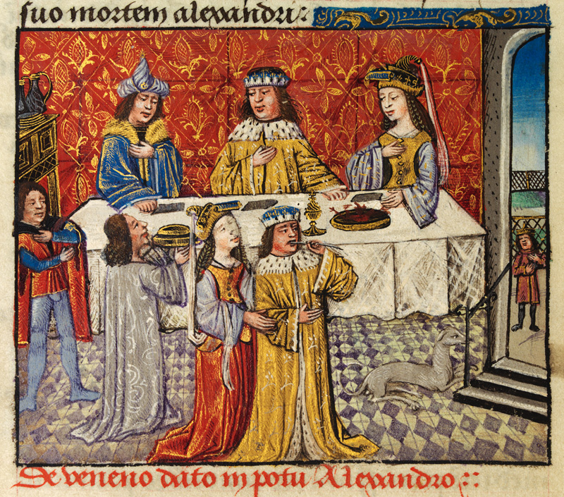 Alexander and his queen at table, and again in the foreground with a feather in his throat after being poisoned (f. 94v.). 323 BCE